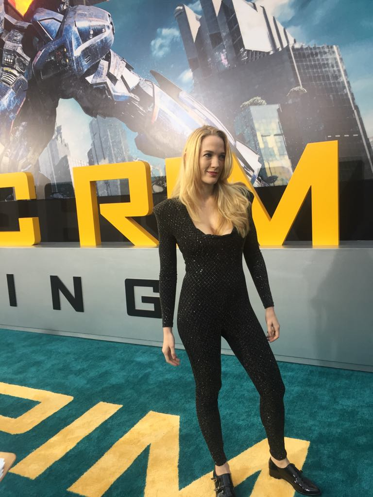 Emily Carmichael appears on the red carpet at the premiere of Pacific Rim: Uprising